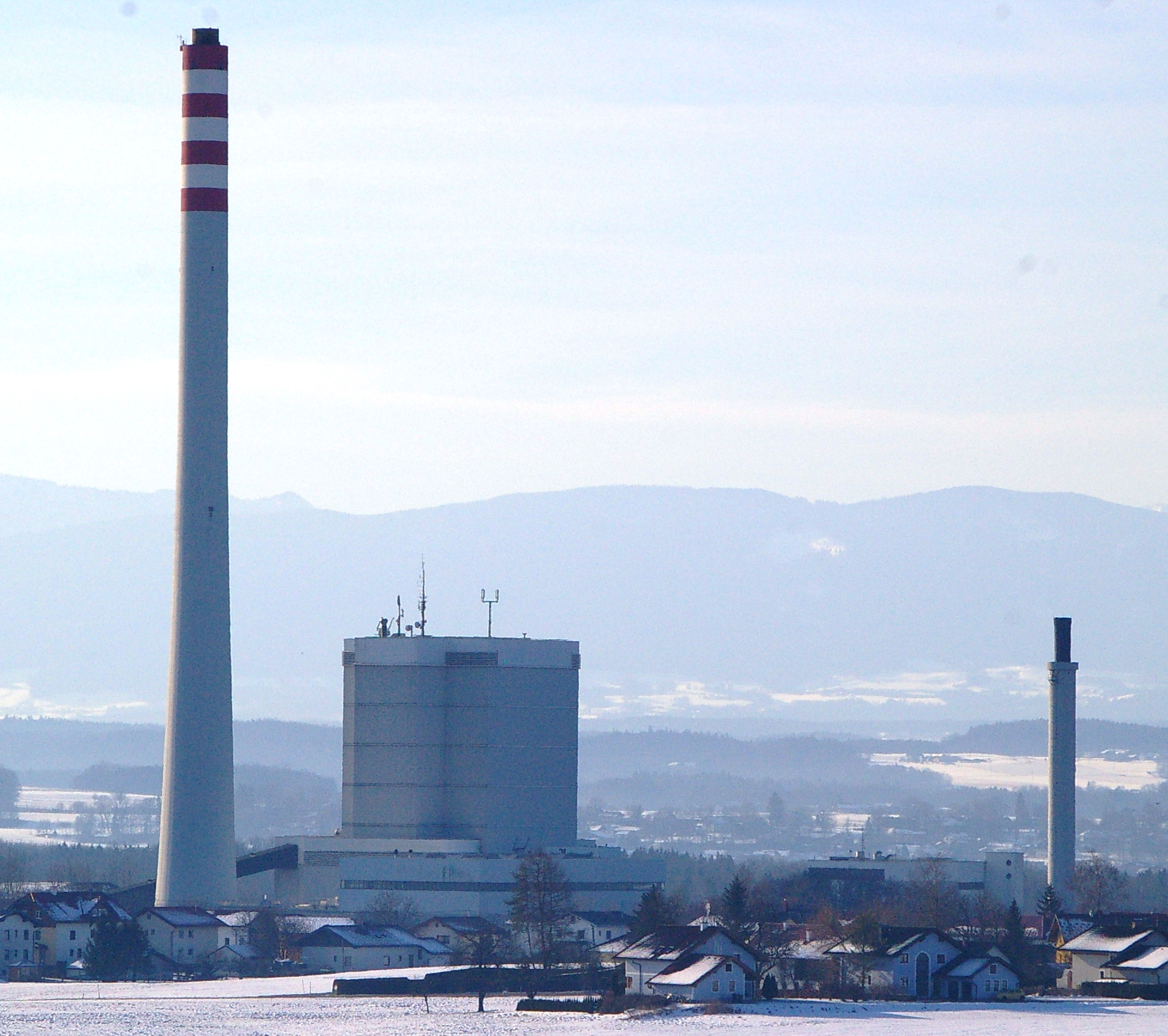 steam power station